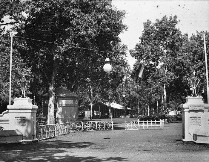 Entrance of the botanical gardens and zoo, Batavia